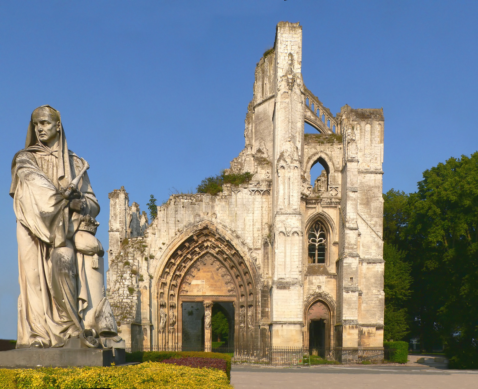 Saint Bertin church and marble statue of abbot Suger. Saint-Omer, Pas-de-Calais (France)